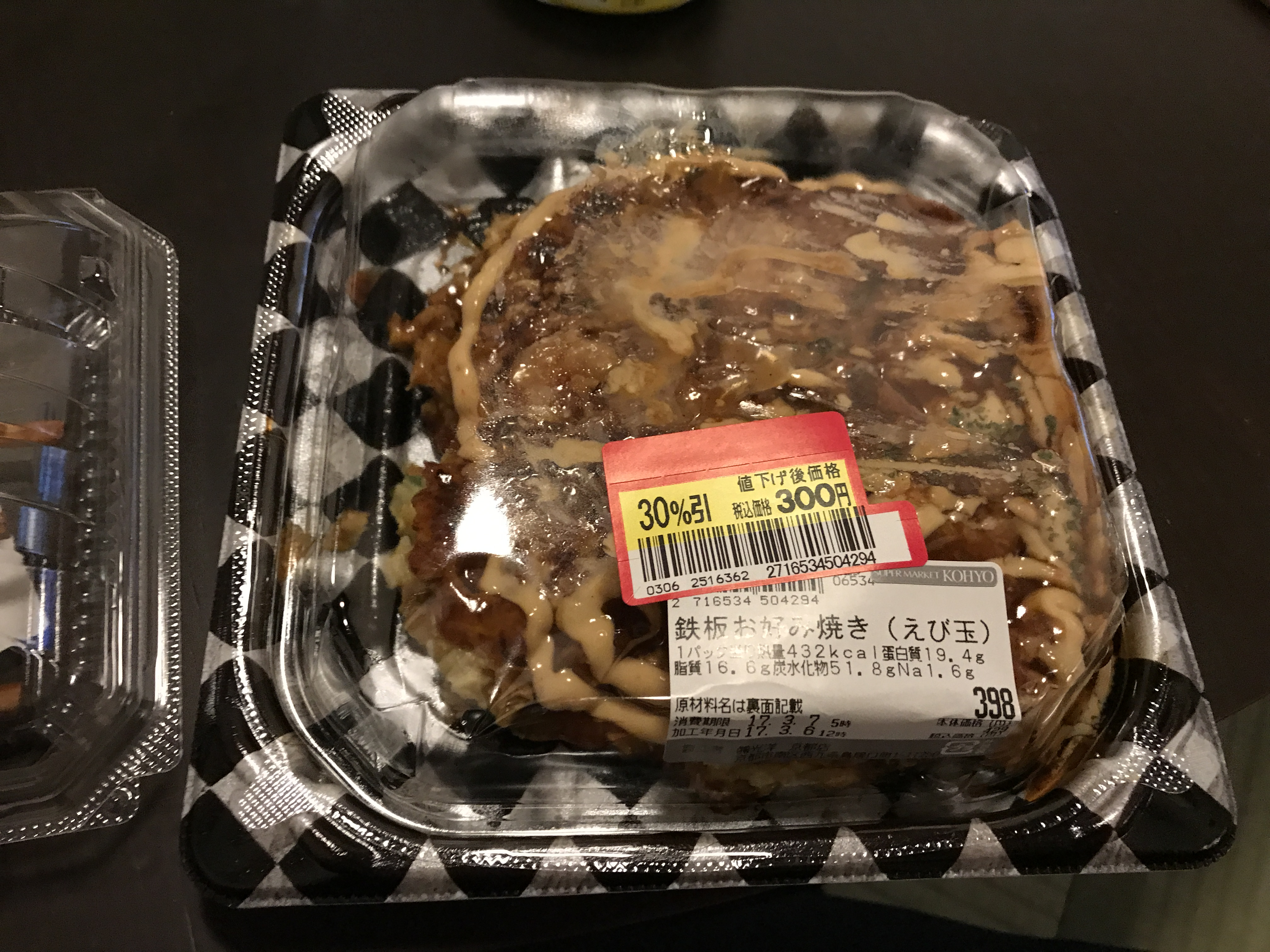 Uploaded from bangdoll-iPhone7plus.